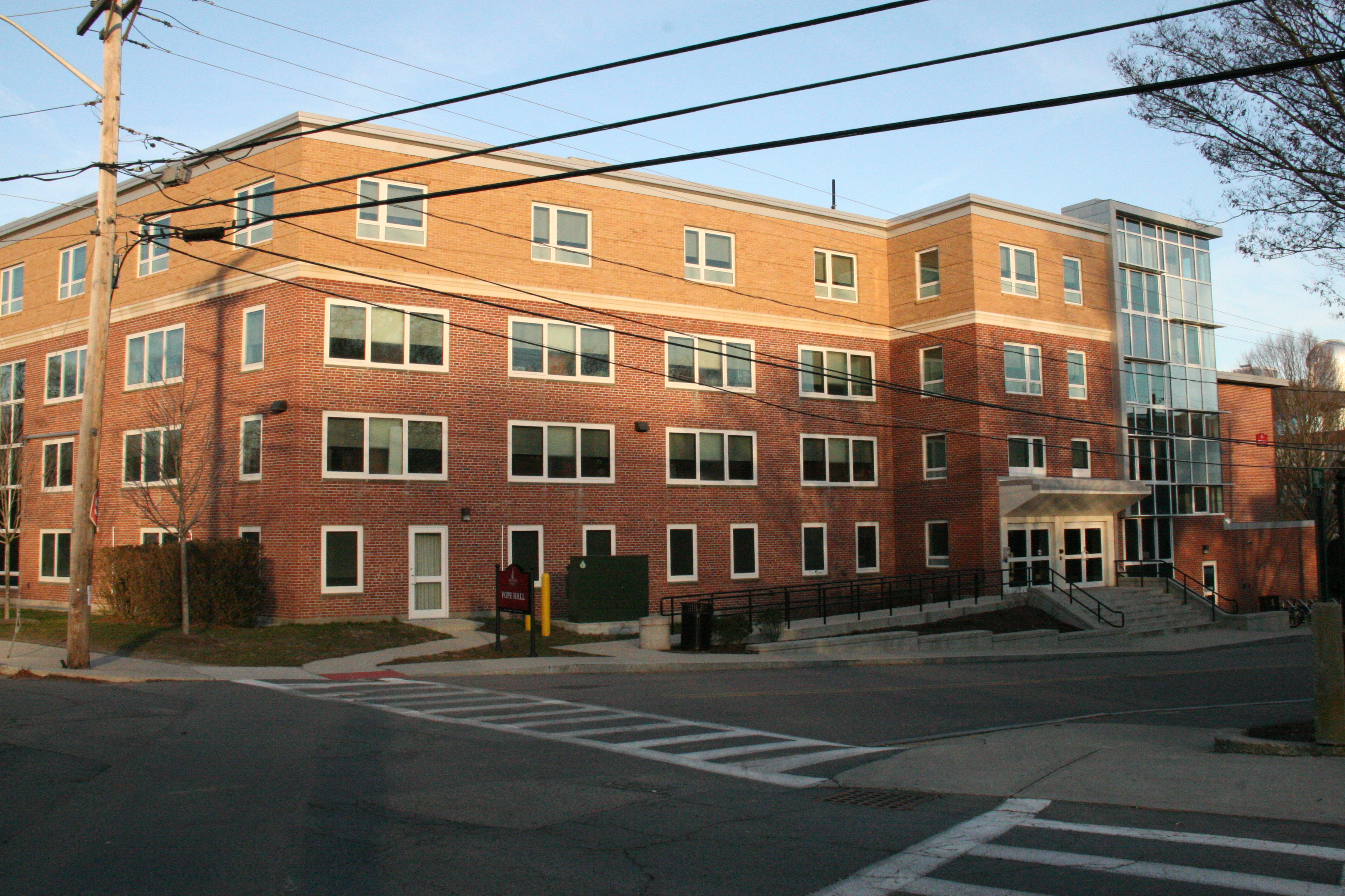 Bridgewater University 4 Park Ave. Bridgewater Ma.